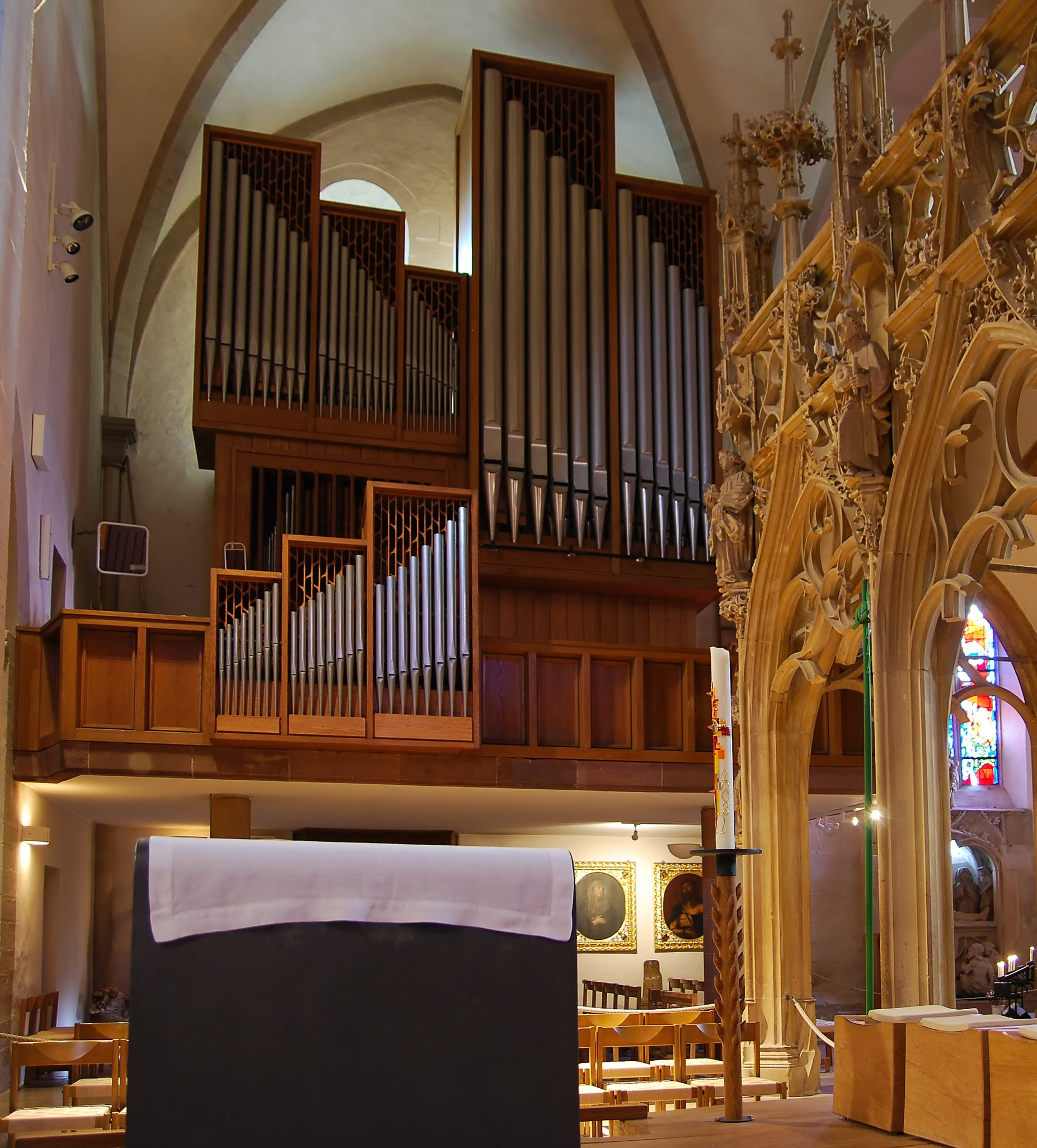 Breisach Minster organ.